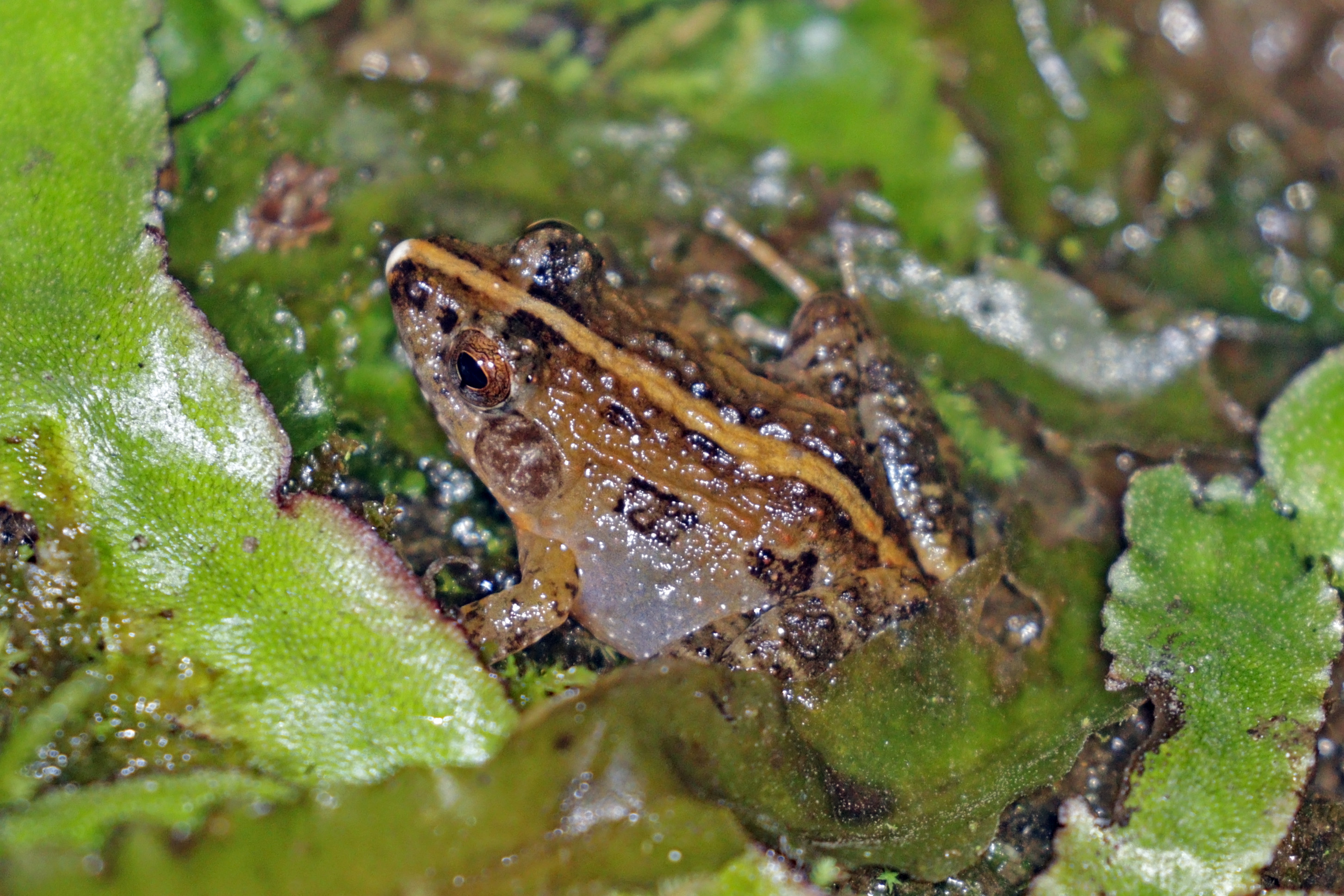 Mantellid frog (Mantidactylus femoralis), Ranomafana National Park, Madagascar